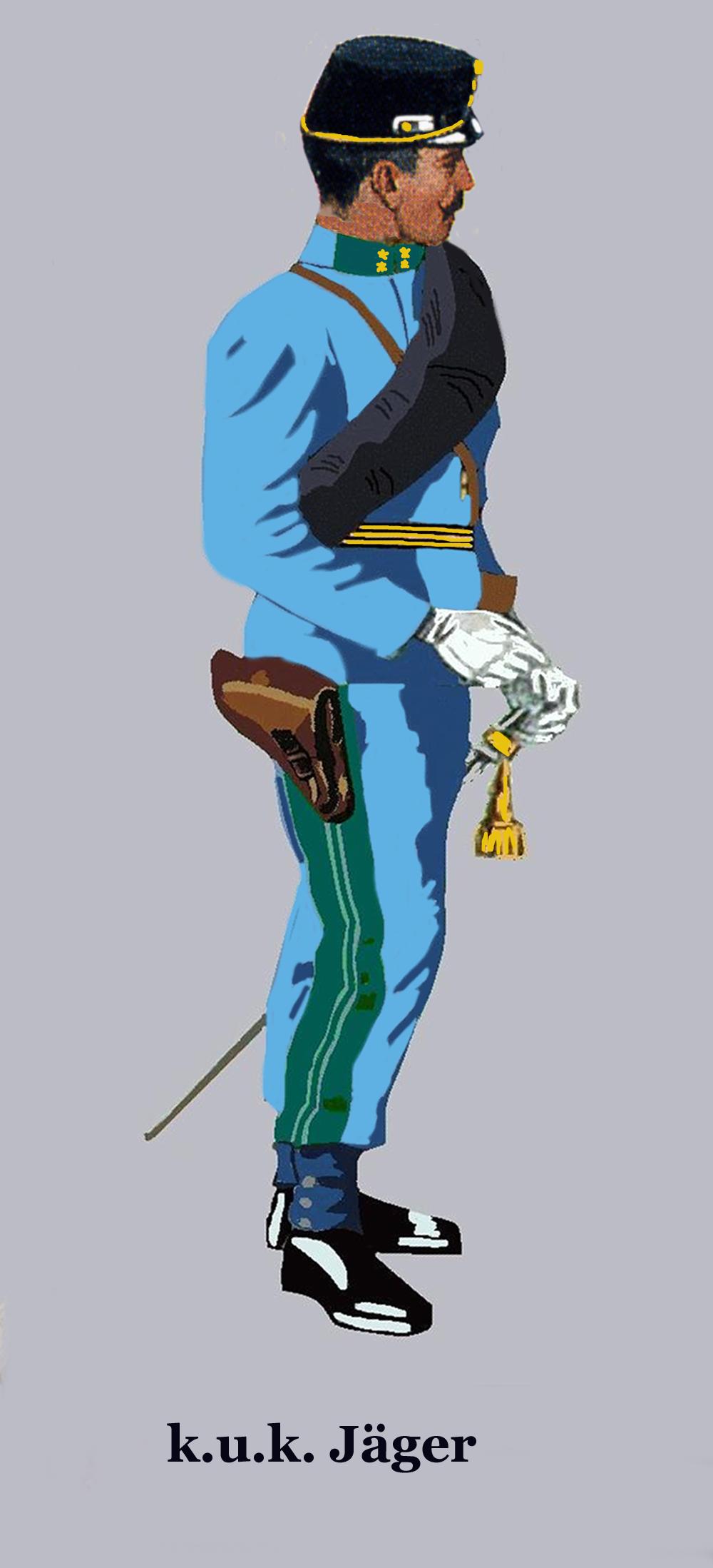 Austria-Hungarian Rifles - 1st Lieutenant in battledress pre 1908